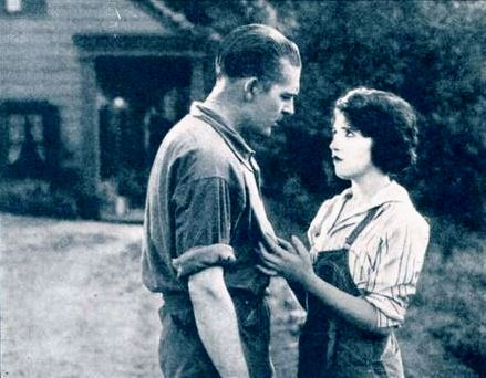 Still from the American drama film Nice People (1922) with Wallace Reid and Bebe Daniels, on page 24 of the September 1922 Film Fun.